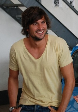 Tom Beck, Fantreffen in Hürth, August 2009.